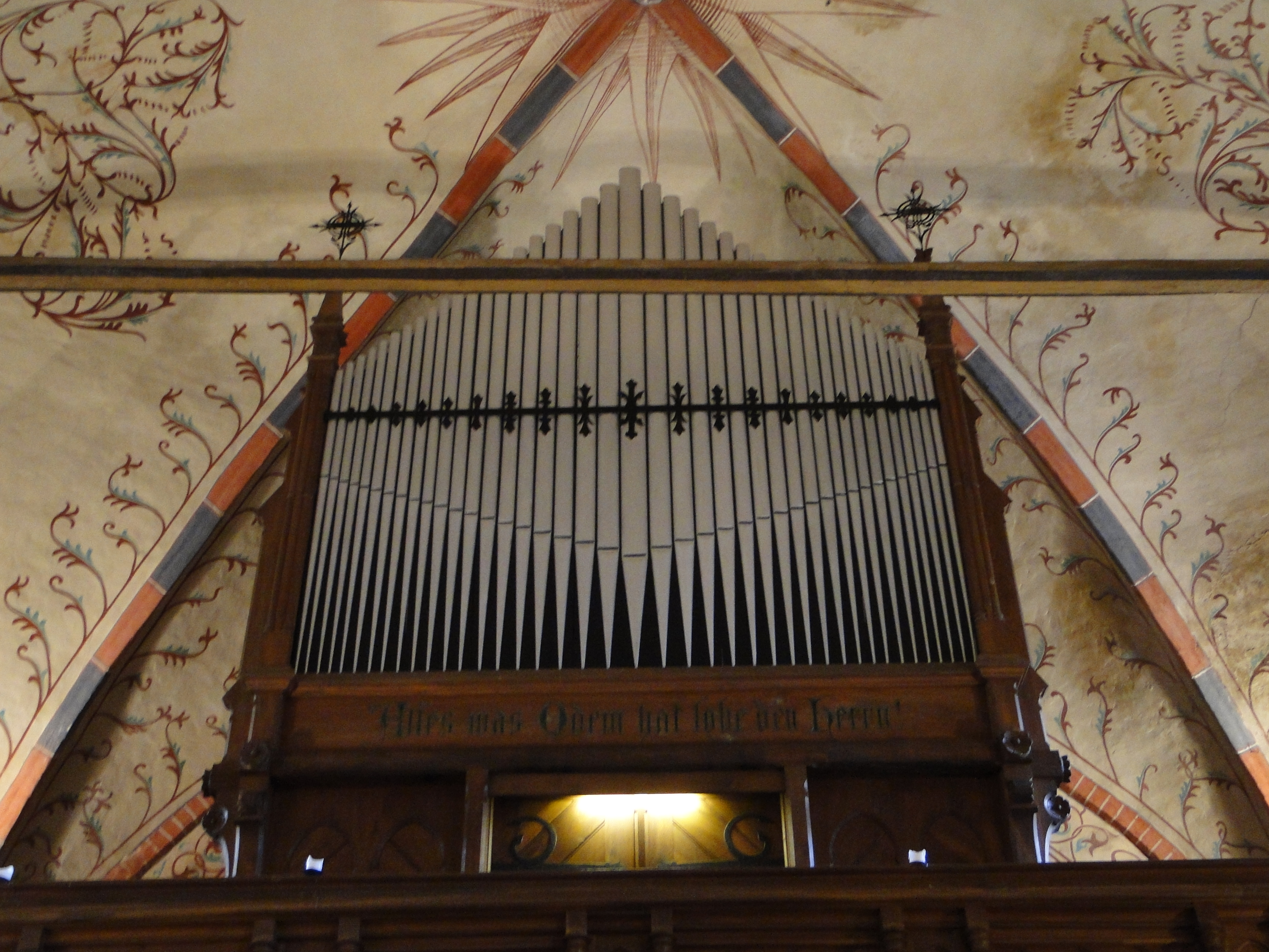 Church in Lohmen, district Rostock, Mecklenburg-Vorpommern, Germany